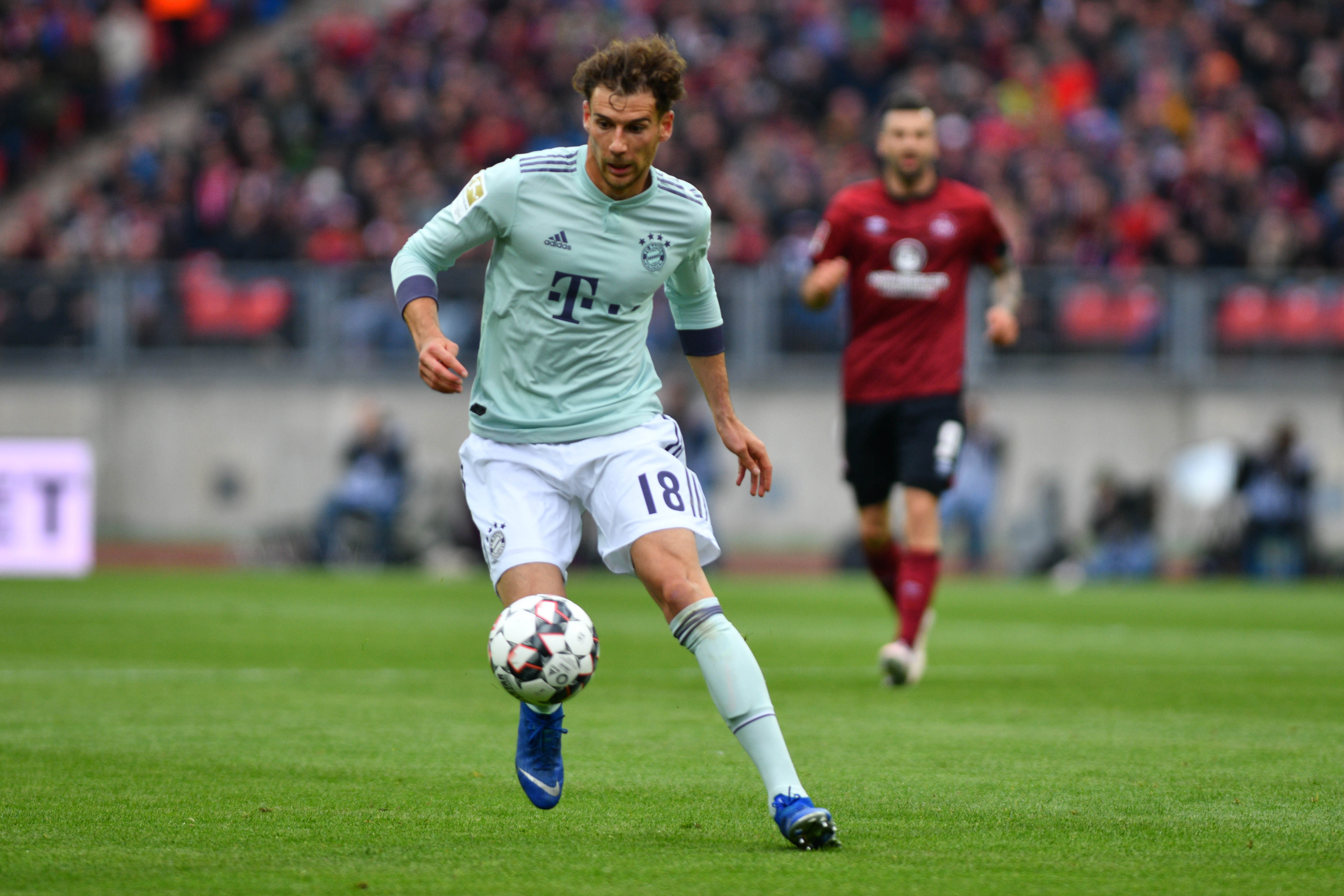 German Soccer League Season 2018/19, 31st match day 1. FC Nürnberg vs. 1. FC Bayern München. Picture shows: Leon Goretzka of Munich